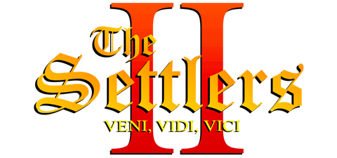 Logo for the 1996 video game The Settlers II: Veni, Vidi, Vici